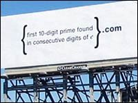 Bilboard of Google